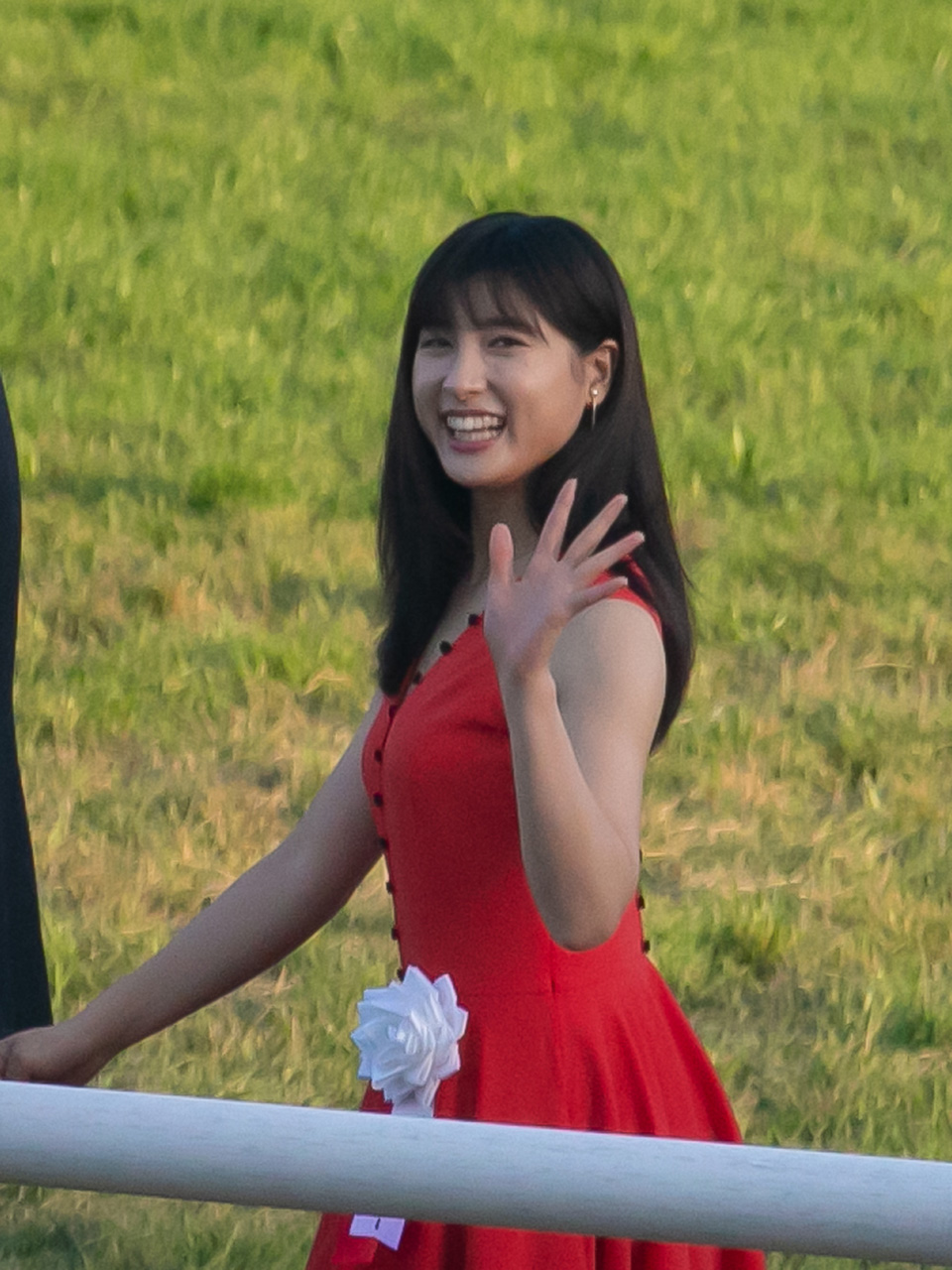 Tao Tsuchiya.